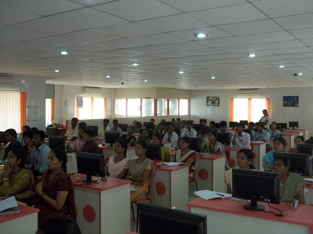 CSE Lab, Jaya engineering College, Thiruninravur, Tamilnadu, India